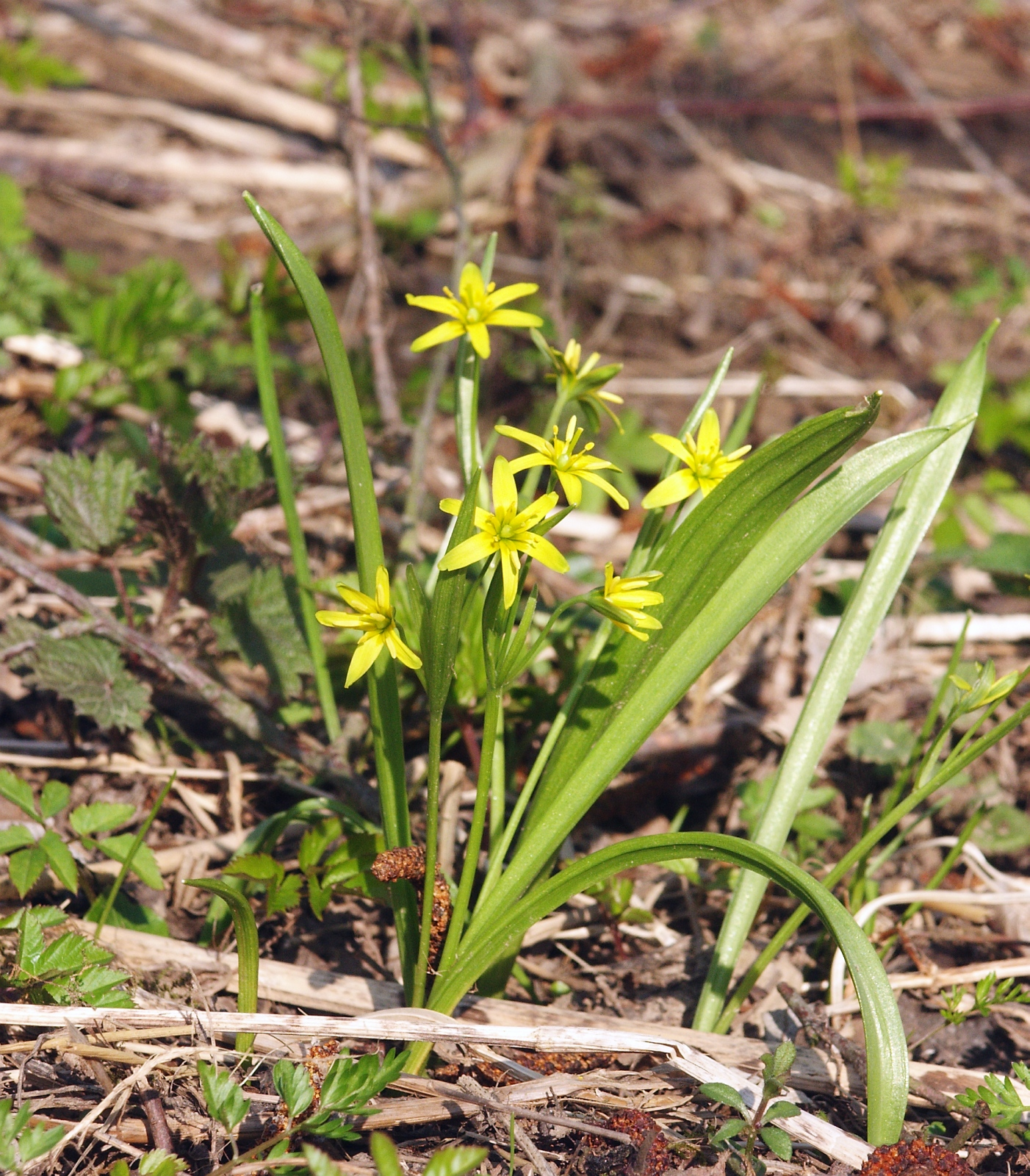 Gagea lutea, Hohenloher Land, Germany